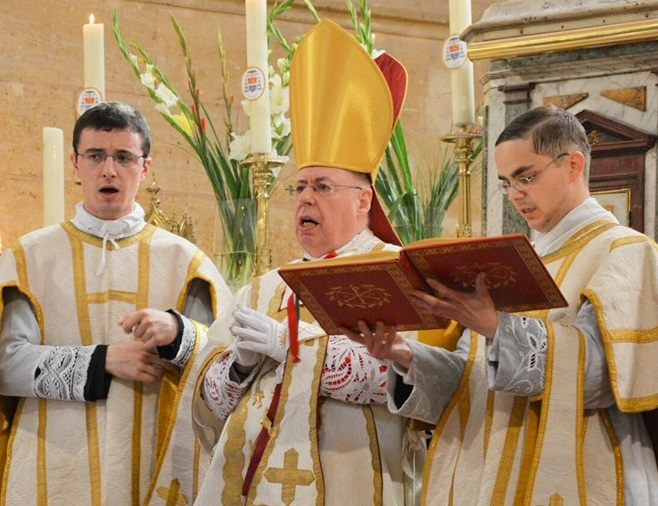 Mons. François Bacqué ; ordination de 5 prêtres pour l'ibp ; église st Eloi ; Bordeaux ; 2016